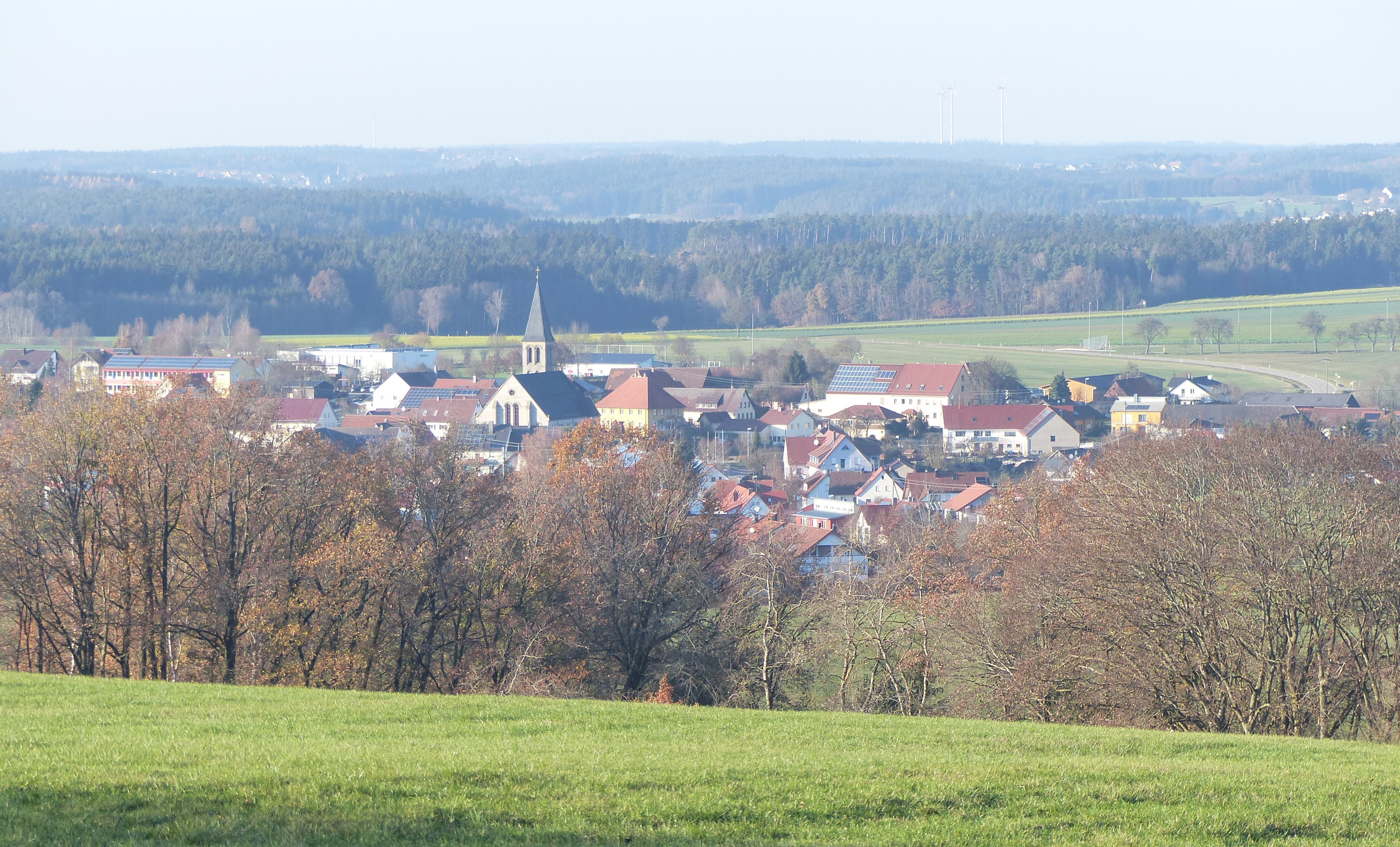 The municipality of Stödtlen